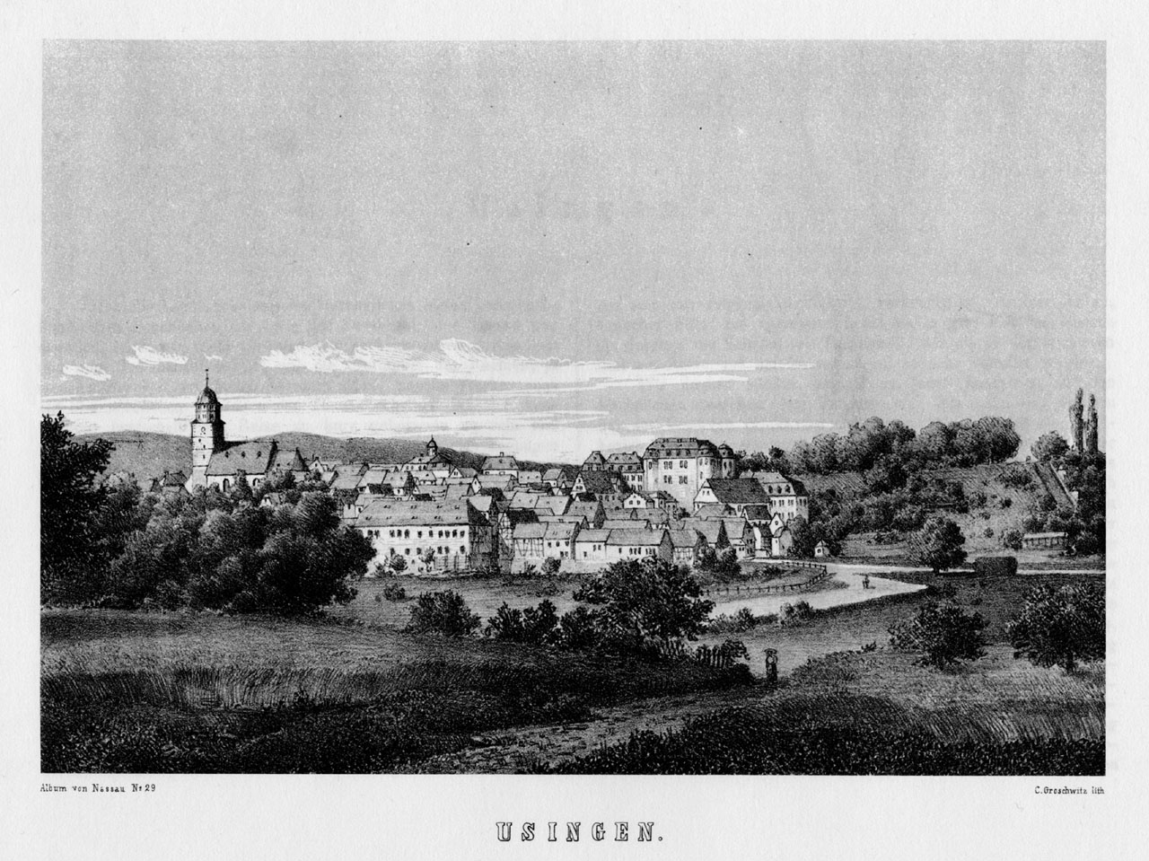 View on Usingen, Germany, year 1864